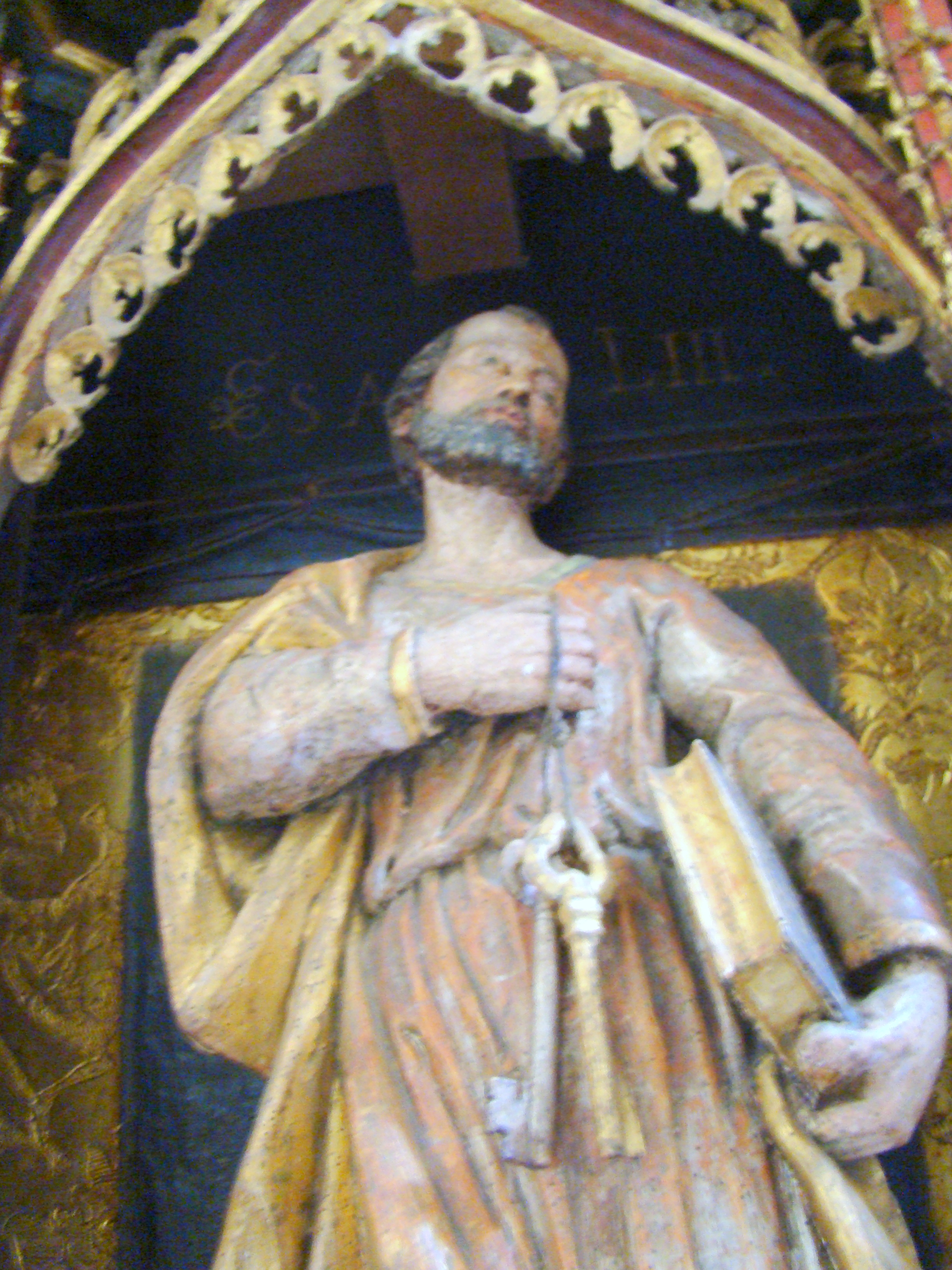 Lutheran church in Hălchiu, Brașov County, Romania